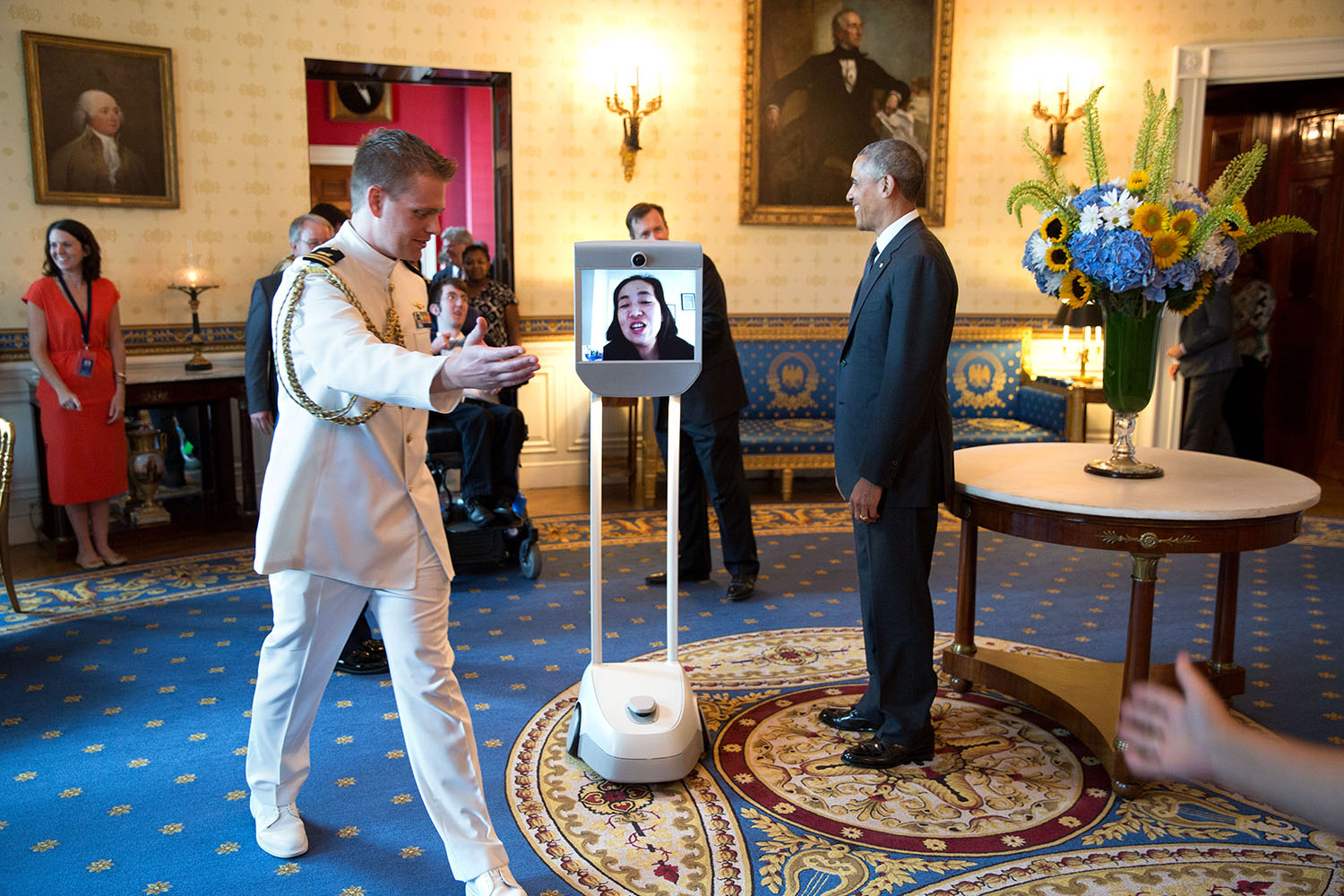 July 20, 2015 "During photo lines, there's this routine called 'push and pull.' One social aide helps push the next guest towards the President and another helps pull them out of the room. During a photo line to commemorate the 25th anniversary of the Americans With Disabilities Act, Alice Wong, Disability Visibility Project Founder, participated via robot. So after her photograph had been taken, social aides gestured to 'pull' her out of the room as the next guest entered." (Official White House Photo by Pete Souza)